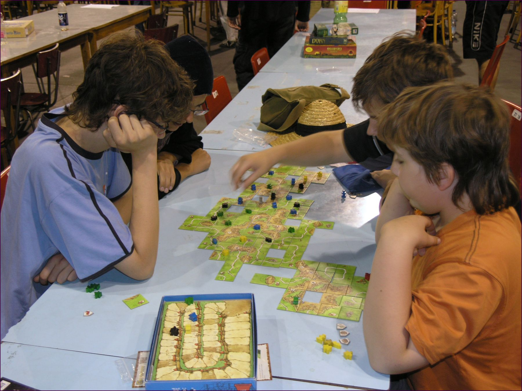 GameCon 2007 in Pardubice - Carcassonne